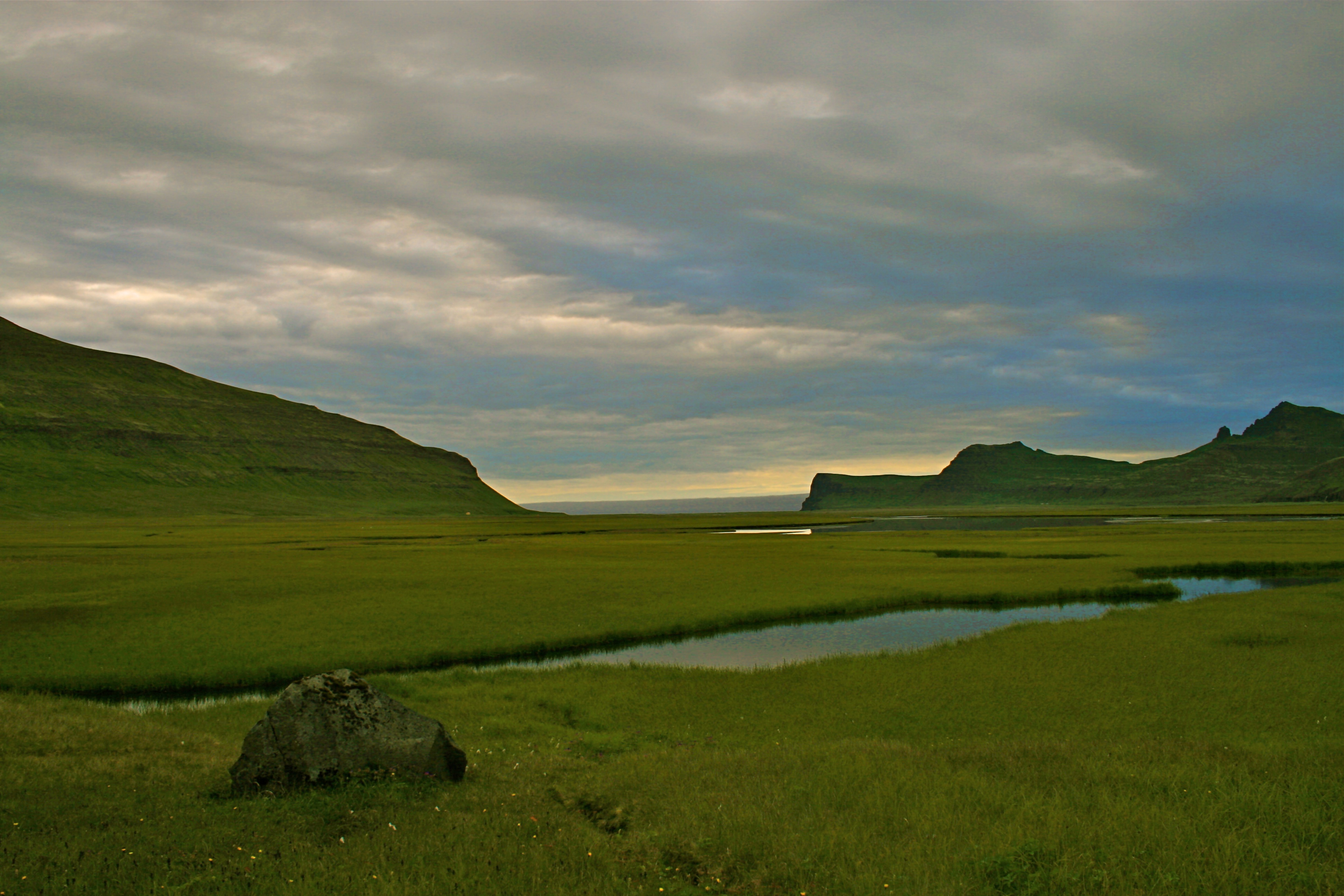 Wetlands close to Hornvik, Hornstrandir nature reserve